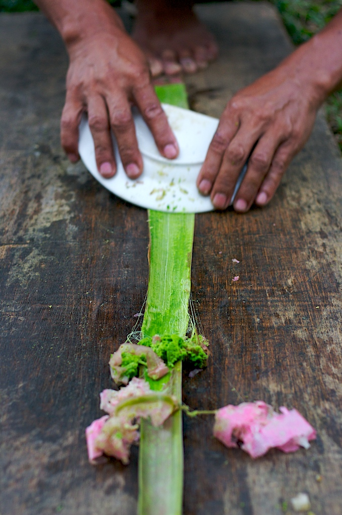 A Filipino man in the province of Palawan scrapes off the top layer of a pineapple leaf with a ceramic plate to reveal the fibres beneath. Photograph by Jeff Werner, May 8, 2007.